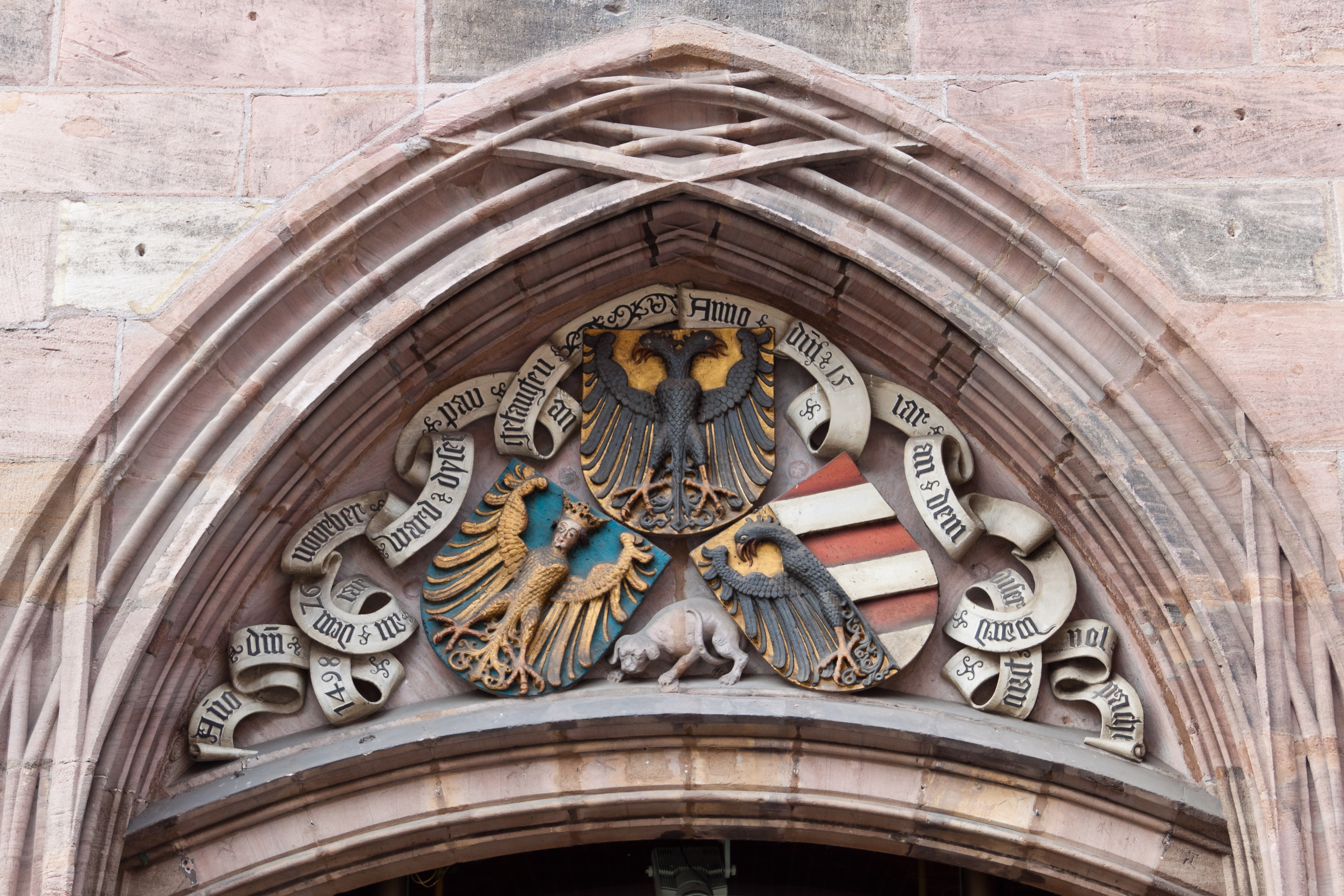 A plaque found above the entrance to the Mauthalle in Nürnberg. It depicts the greater (left) and the lesser (right) coats of arms of the city. On the top there is the coat of arms of the Holy Roman Empire.